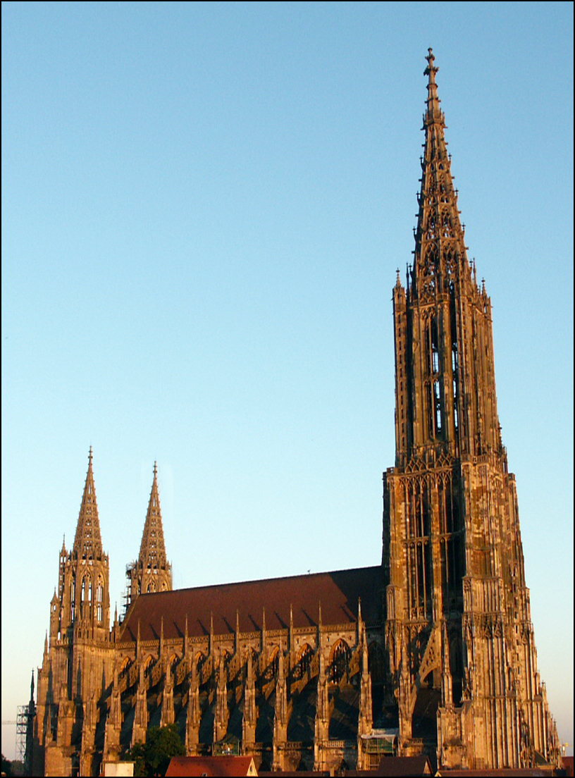 Ulm Minster, Ulm, Germany Late Gothic style, main spire is 161.53 meters tall